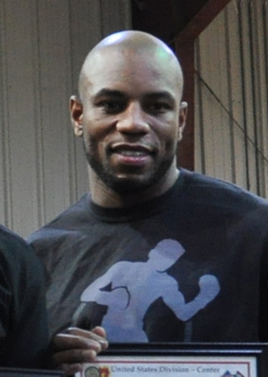 Former ten-time professional boxing world champion Oscar de la Hoya and his 'Golden Boy Boxing' team pose for a photo with Command Sgt. Maj. Ray A. Devens, 25th Inf. Div. and U.S. Division - Center command sergeant major (far left), and Maj. Gen. Bernard S. Champoux, commanding general, 25ID and USD-C (far right) during a visit to Camp Liberty, Iraq, March 12. During the visit de la Hoya and his team took the time to greet, thank and sign autographs for hundreds of Service members and military employees.